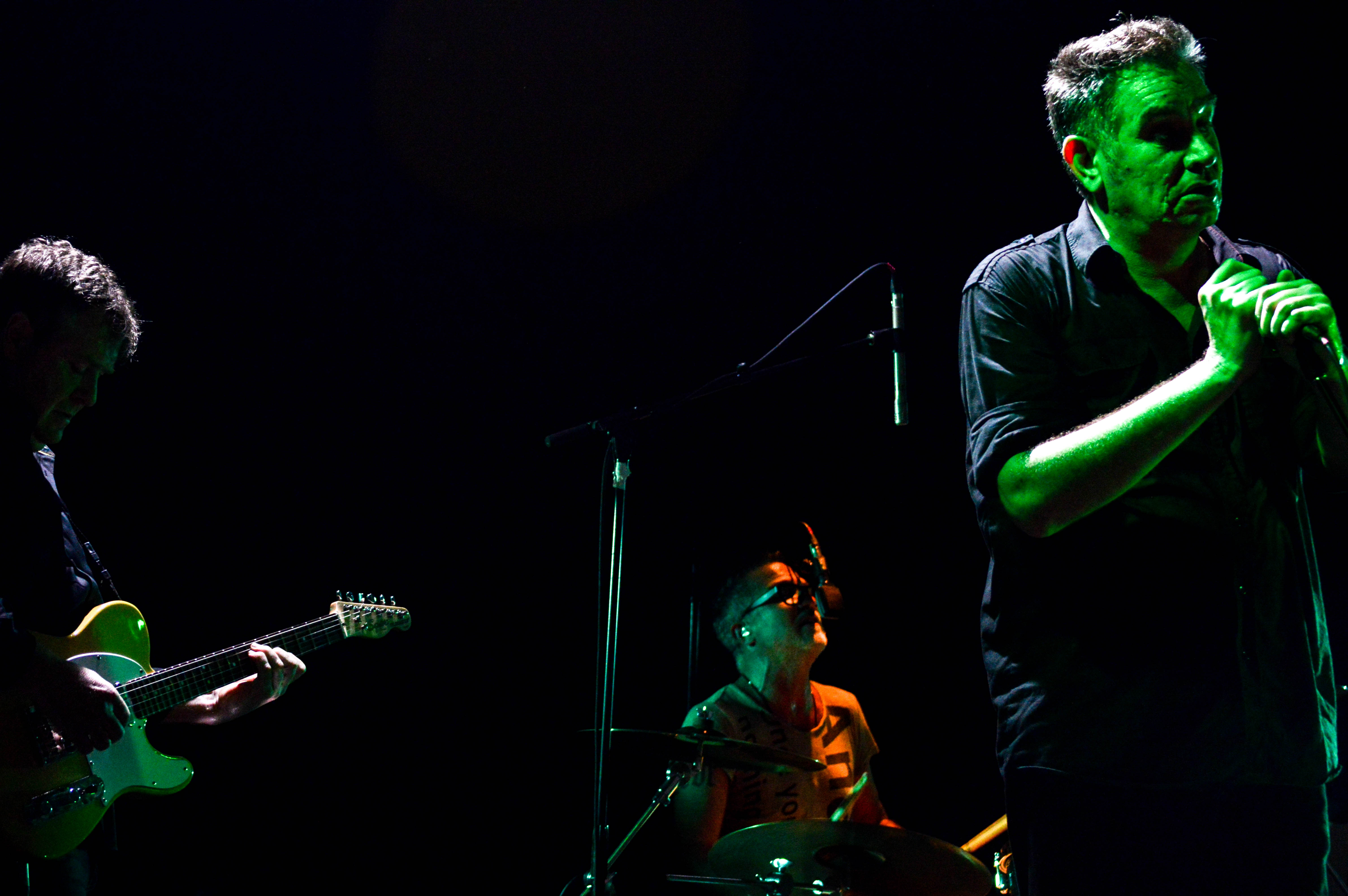 The Pop Group perform in 2014.